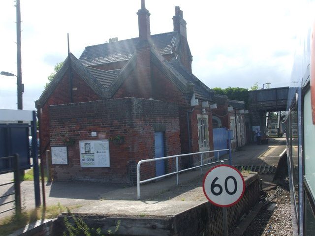 Reedham station buildings The GER buildings now unused by the looks of things although the station is still very much alive and well.